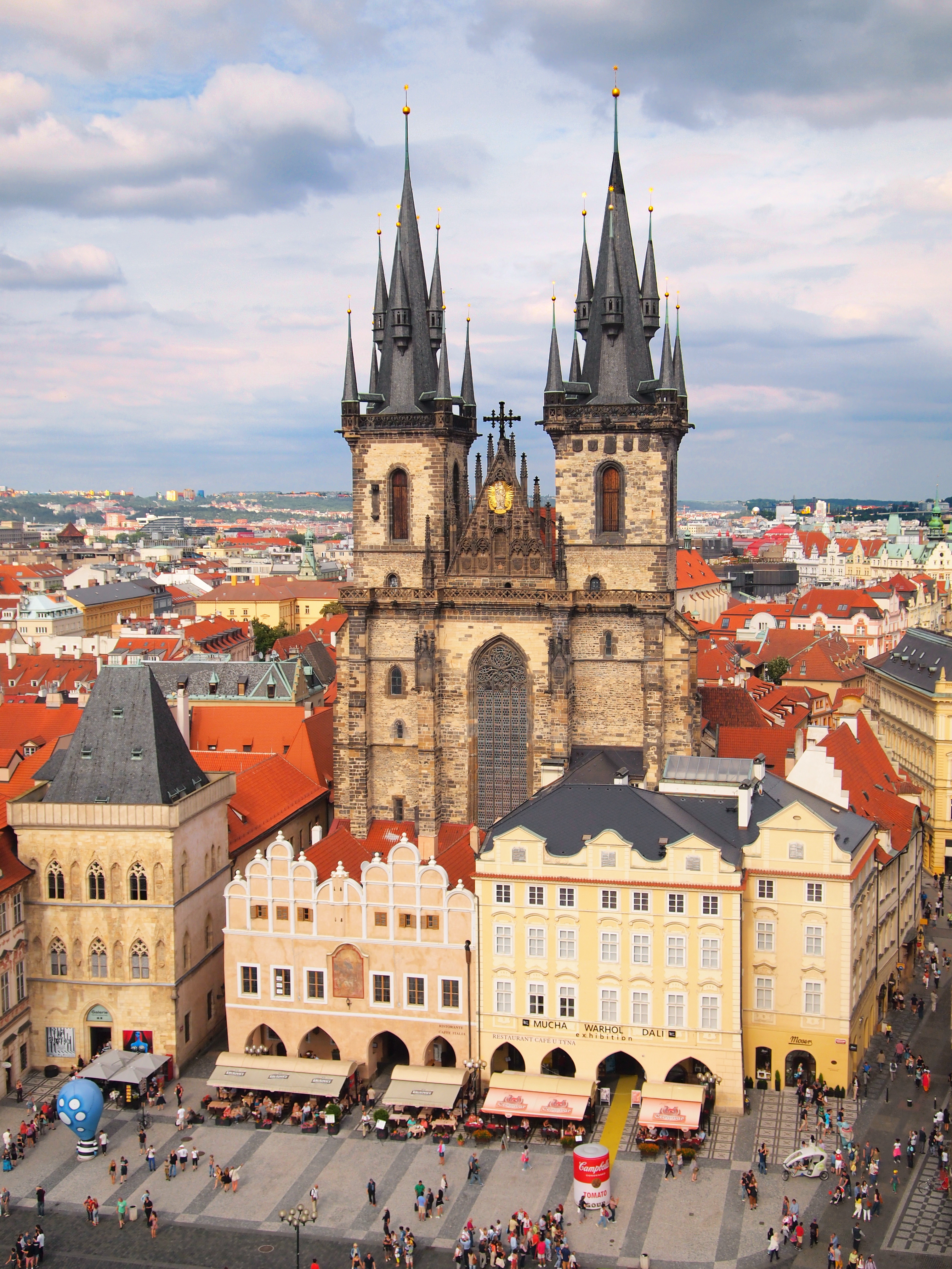 Church of Our Lady in front of Týn in Prague. This photograph was taken with an Olympus E-PL1